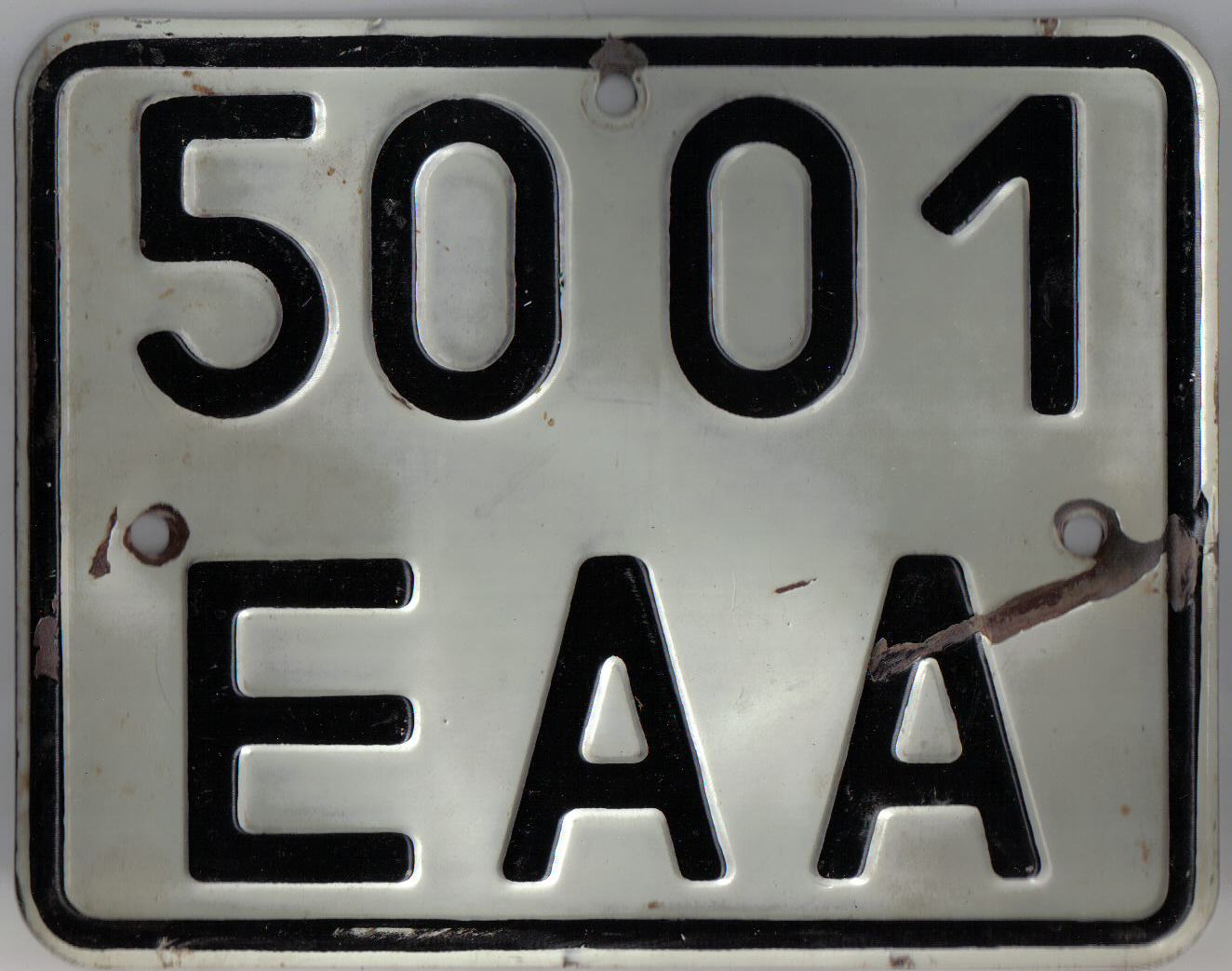 USSR ESTONIAN SSR motorcycle 1980 series